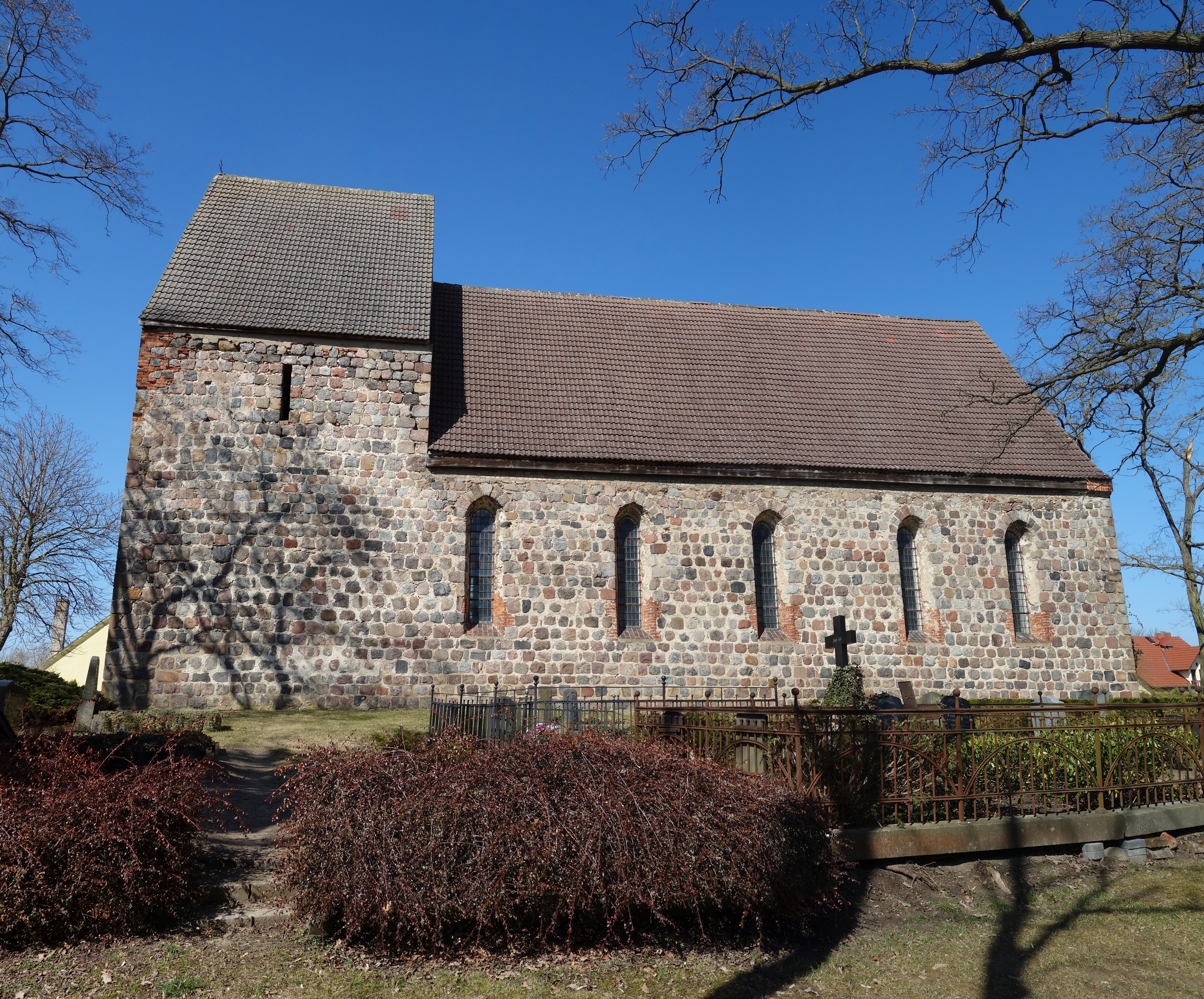 Southern view of the church in Grünow , Grünow municipality , Uckermark district, Brandenburg state, Germany